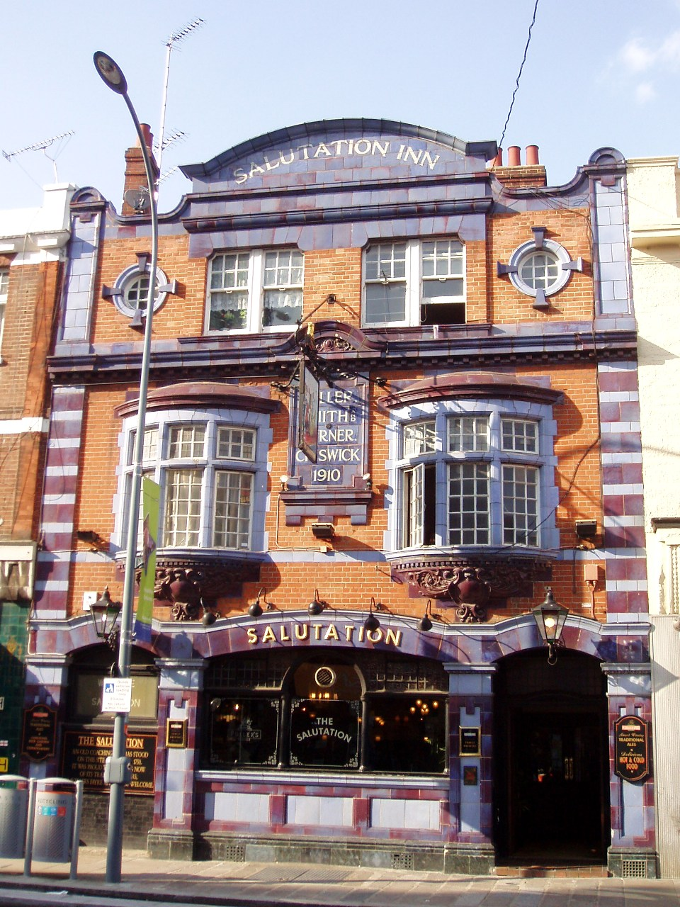 Lovely facade for this Fuller's pub, and a perfectly decent place, in Hammersmith. Address: 154 King Street. Owner: Fuller Smith Turner (website). Links: Randomness Guide to London Fancyapint Beer in the Evening